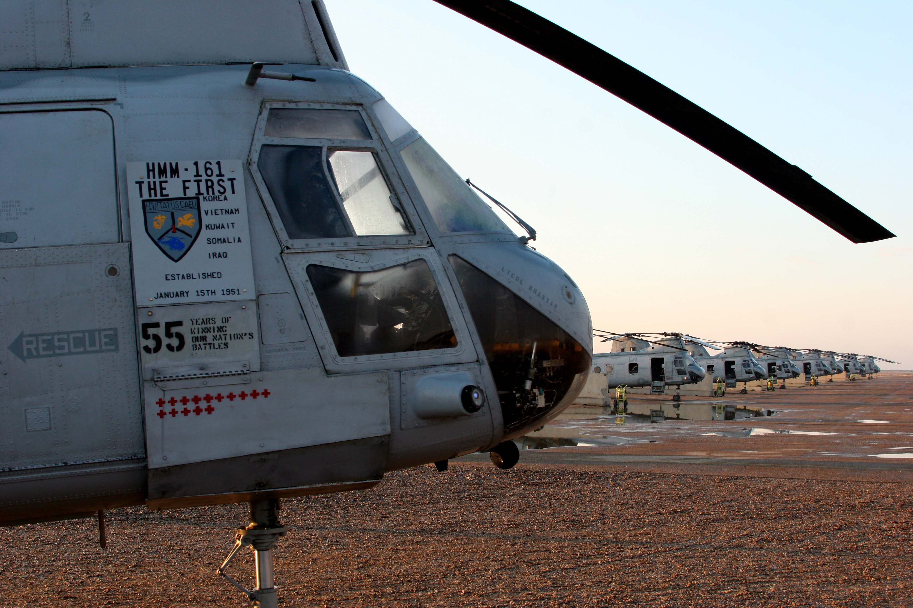 A CH-46 Sea Knight's name is changed to 55 to indicate the number of years Marine Medium Helicopter Squadron 161 has been active, Jan. 15 at Al Taqqadum, Iraq. HMM-161 has seen combat in every major conflict that the Marine Corps has been involved with since the Korean War. Photo by: Cpl. Cullen J. Tiernan